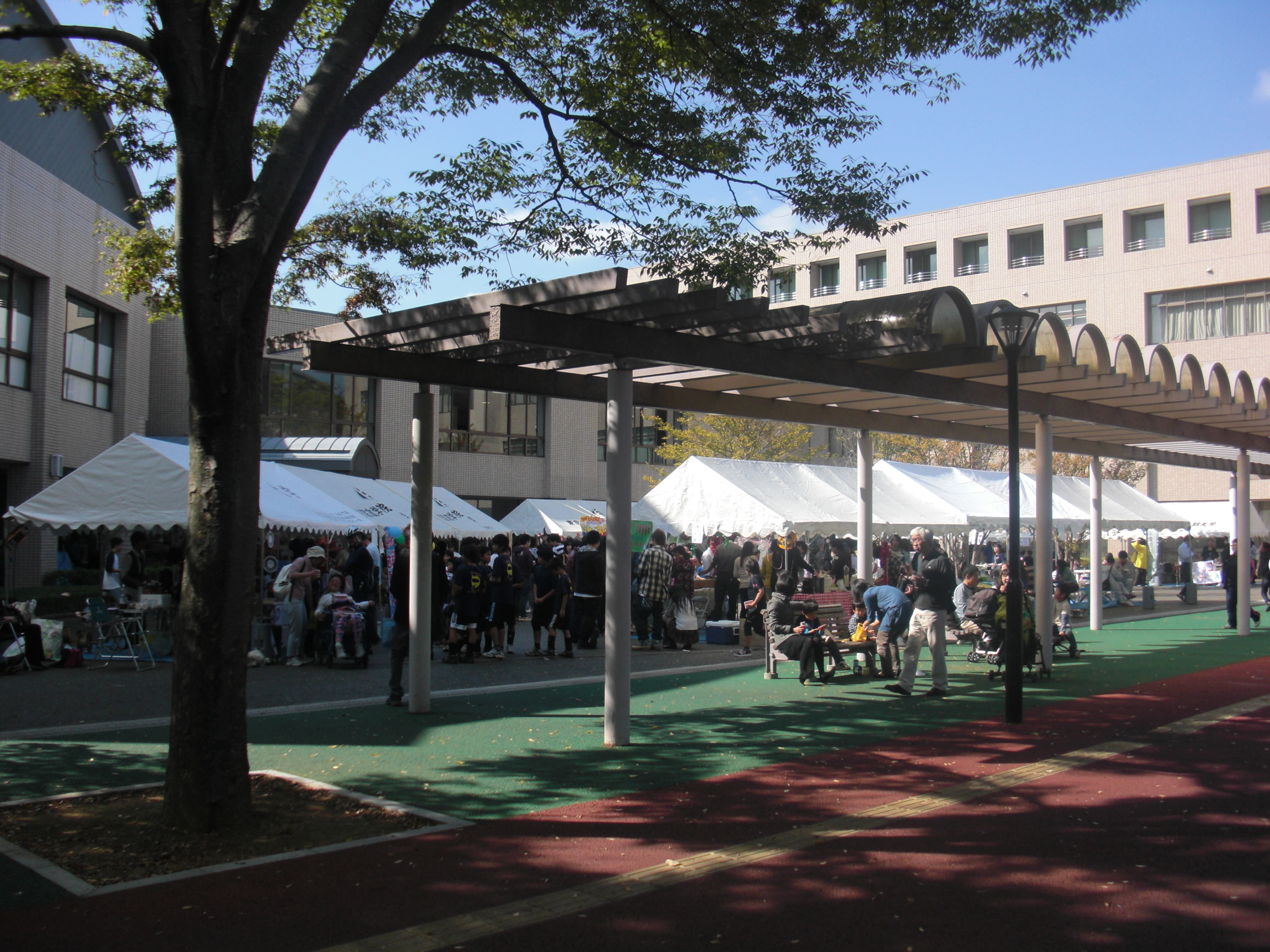 This is a scene of Tsukuba Gakuin University festival, "KVA Festival".